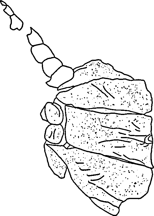 Line drawing of the holotype fossil specimen of eurypterid Necrogammarus salweyi, based upon figures in Selden (1986).